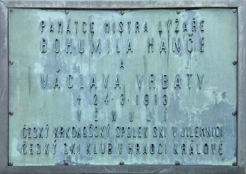 Text on the monument of Bohumil Hanč and Václav Vrbata